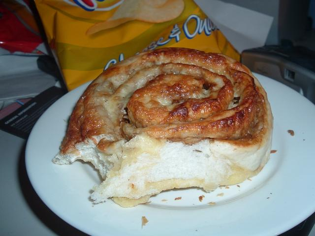 A Cheesymite Scroll, half-eaten